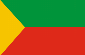 Flag of the Shan State Army.